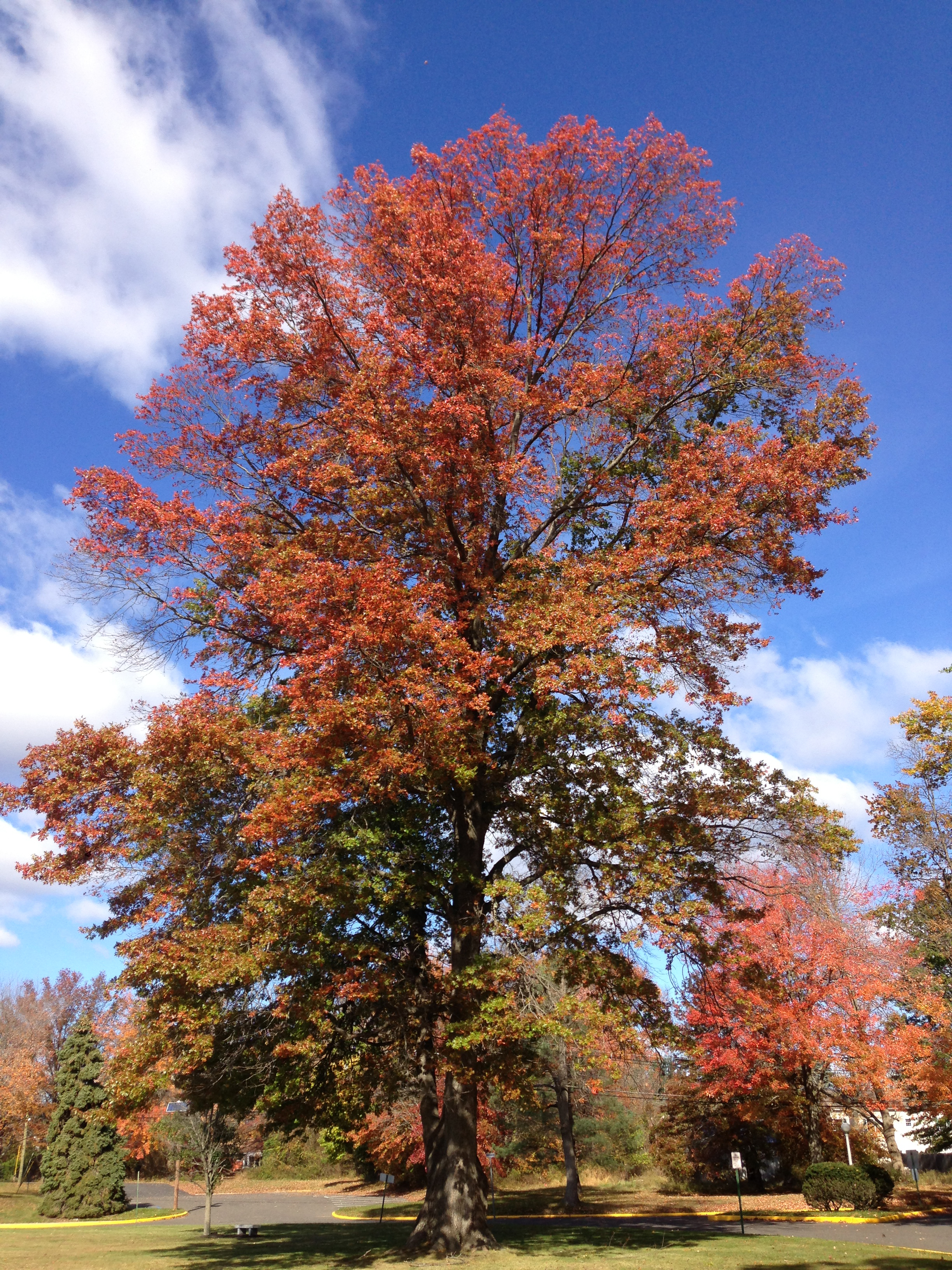 Pin Oak during autumn along Lower Ferry Road in Ewing, New Jersey